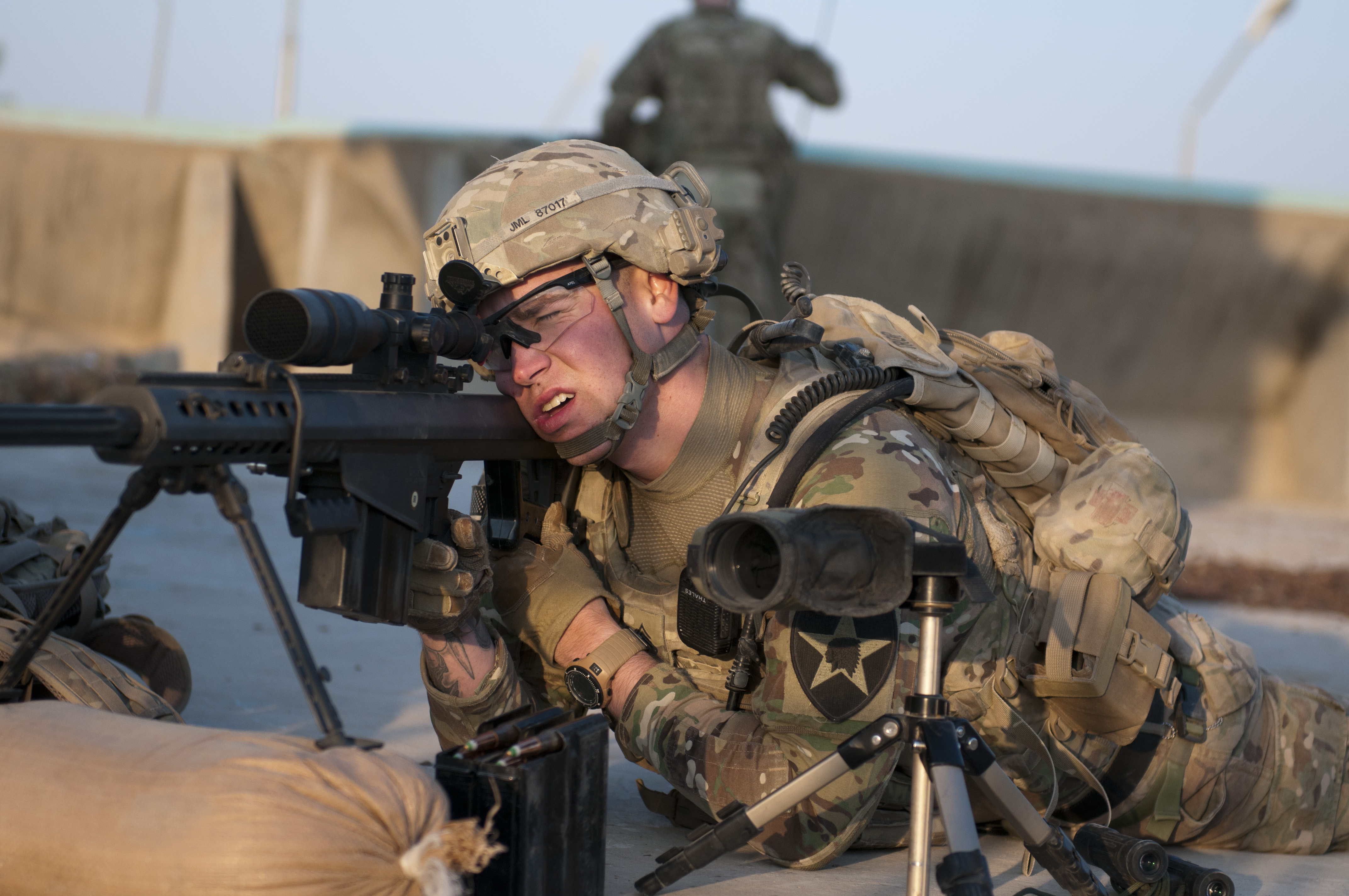 Sgt. Jeremy Trop, who serves as a company sniper section leader with A Company, 2nd Battalion, 1st Infantry Regiment, 2nd Stryker Brigade Combat Team, 2nd Infantry Division, provides overwatch security during an operation to assist his Afghan National Army counterparts in the Zharay district of Kandahar province Oct. 10.